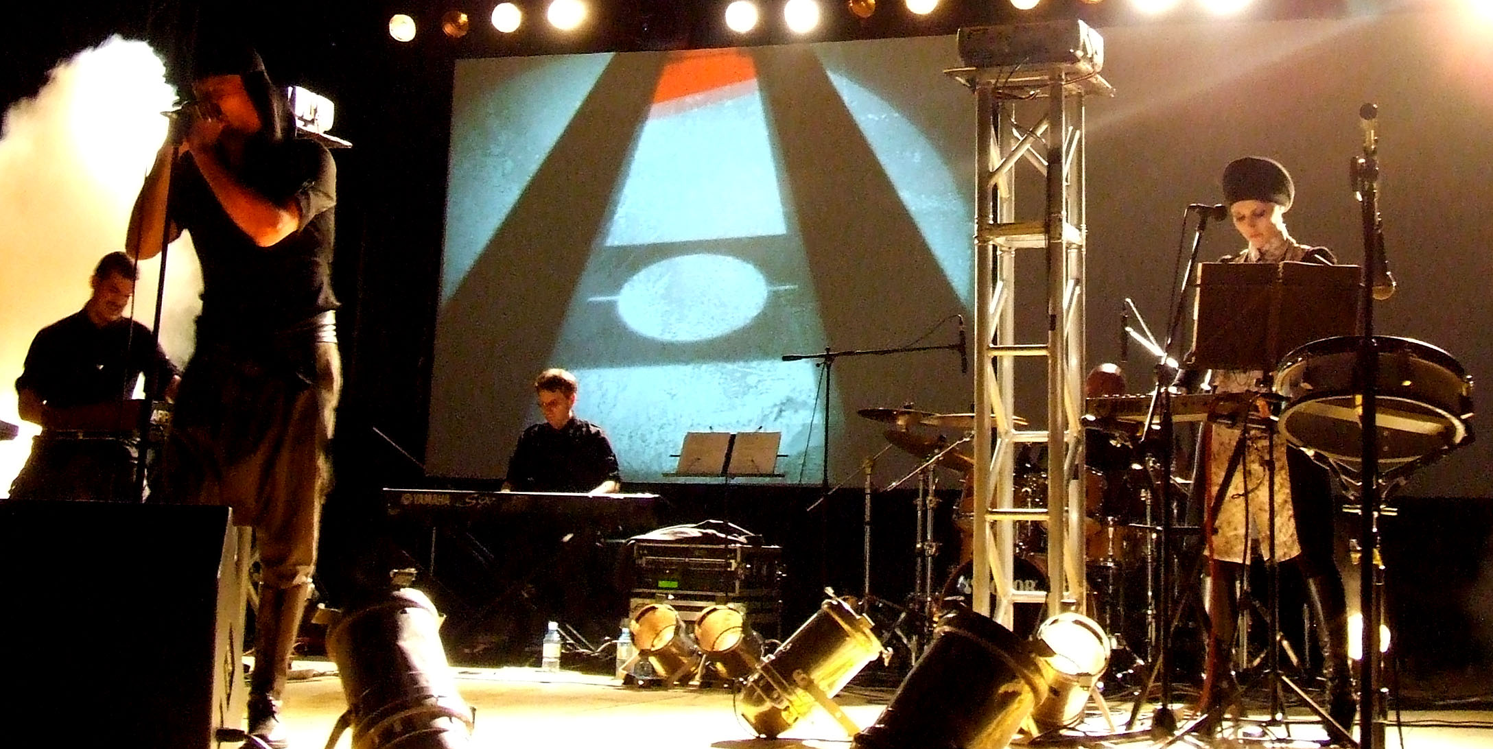 Laibach perfoming in Celje, Old Castle